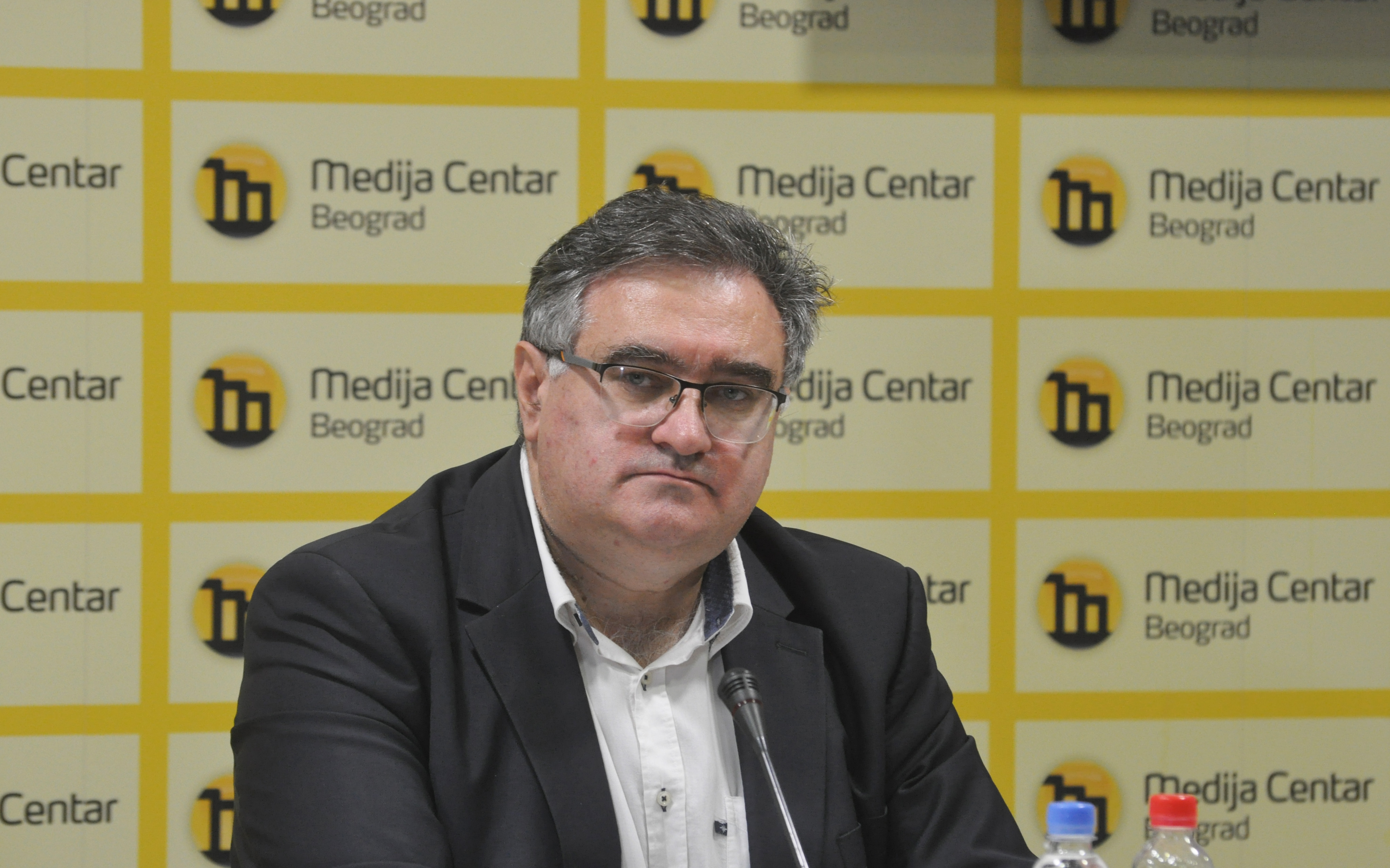 Djordje Vukadinovic 2019